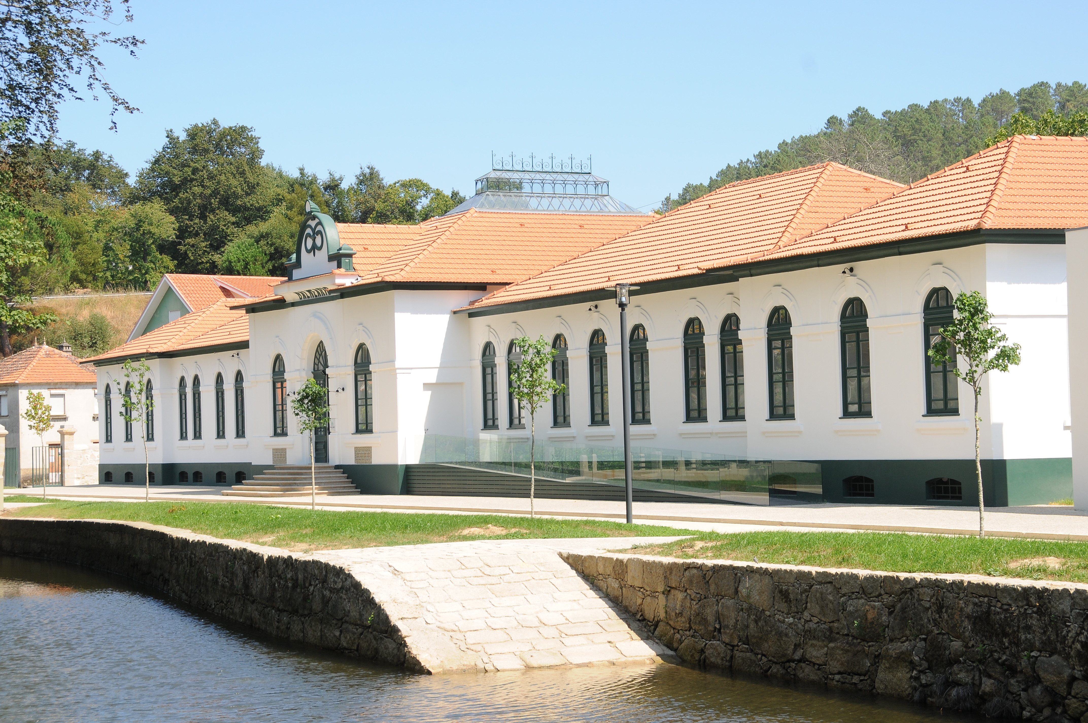 Termas de Melgaço in Portugal